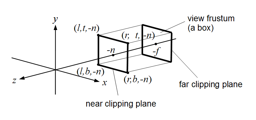 Illustration of the view frustum in view coordinates (i.e. eye coordinates) depicting the parameters required to define an orthographic projection.